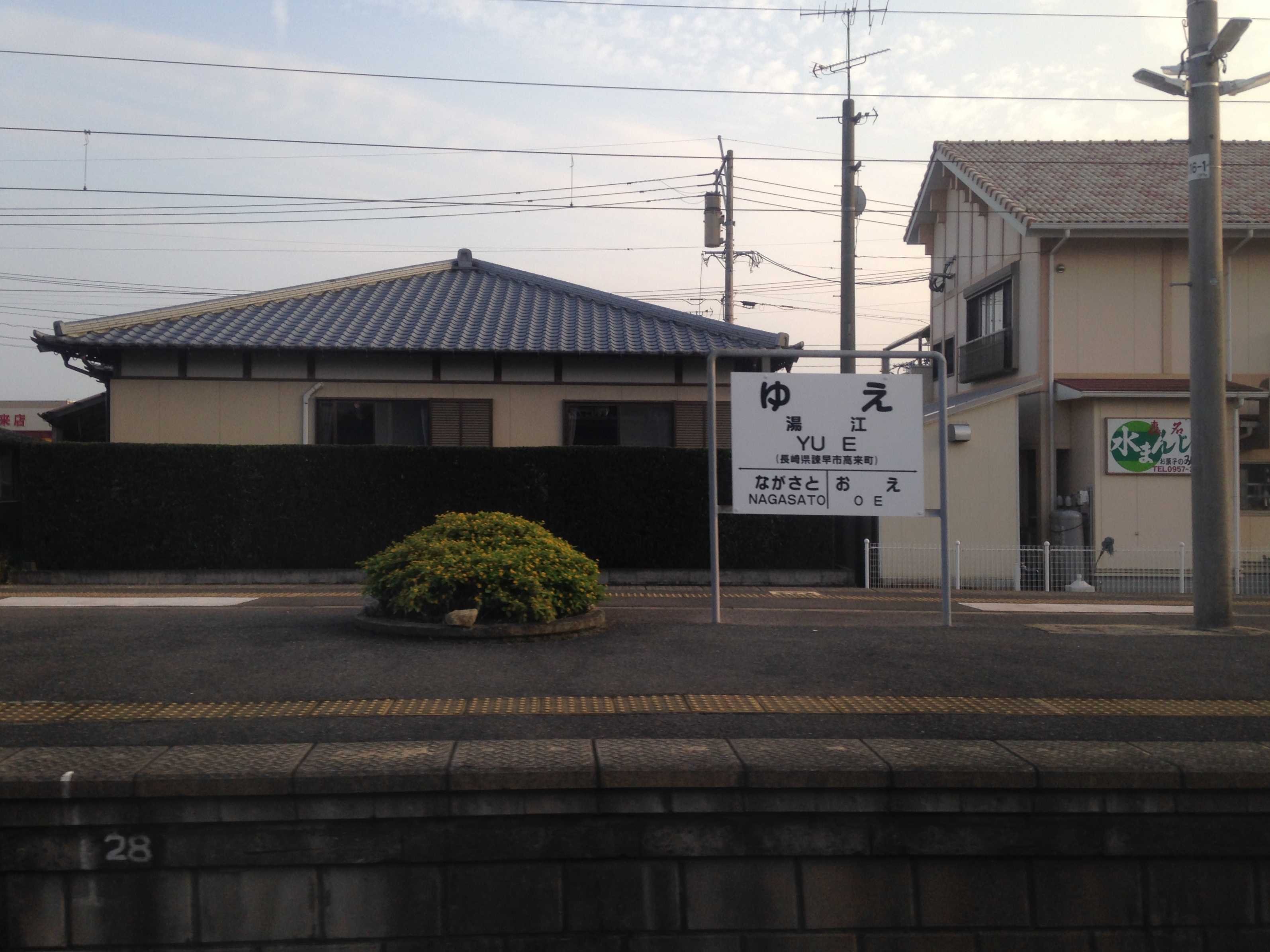 The platform at Yue Station on the Nagasaki Main Line in Nagasaki Prefecture, Japan